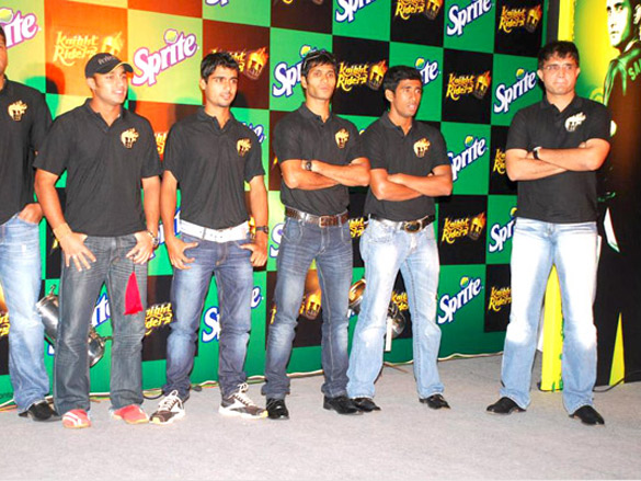 Sourav Ganguly with Knight Riders